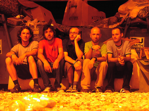 Pic by KxM